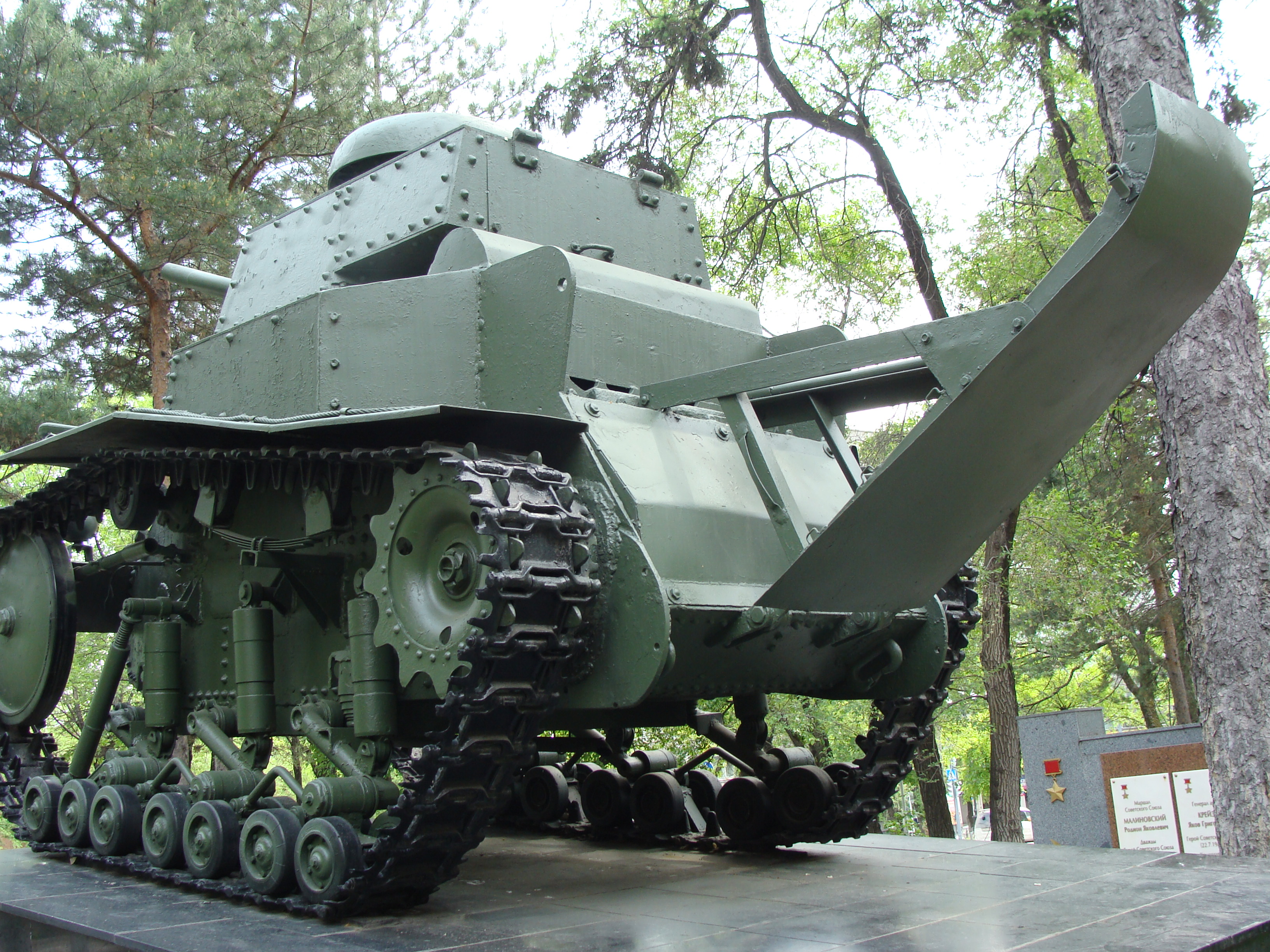 T-18, Khabarovsk